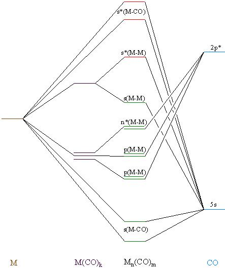 General metal carbonyl cluster MO diagram created in Chem draw std. copied from Russian Chemical Reviews, 54 (4), 1985.